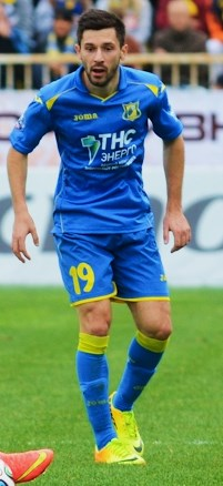 Hrvoje Milić